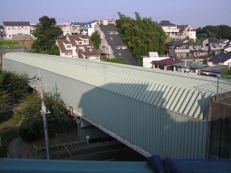 撮影地 Place of photo北習志野～飯山満撮影の状況 How to take公道から撮影 At public roadトリミングの有無 Cropped or not非トリミング Not Cropped内容 Description東葉高速鉄道の軌道覆い